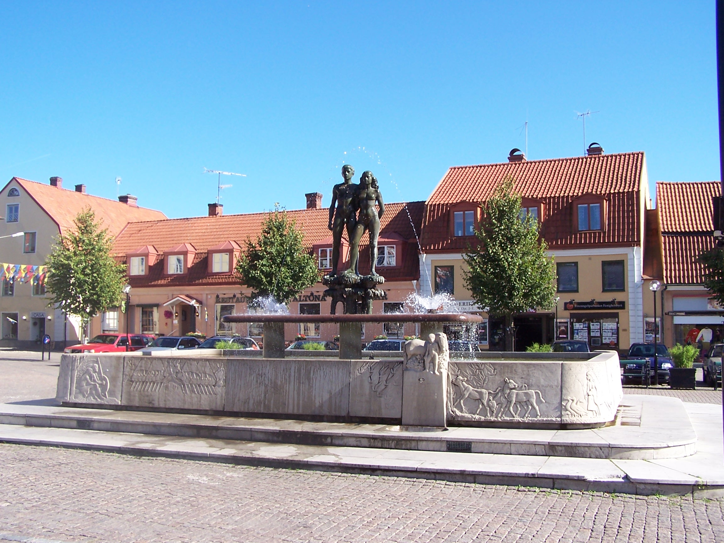 The sculpture "Ask och Embla" (Ask and Embla) by Stig Blomberg 1948, Sölvesborg, Sweden